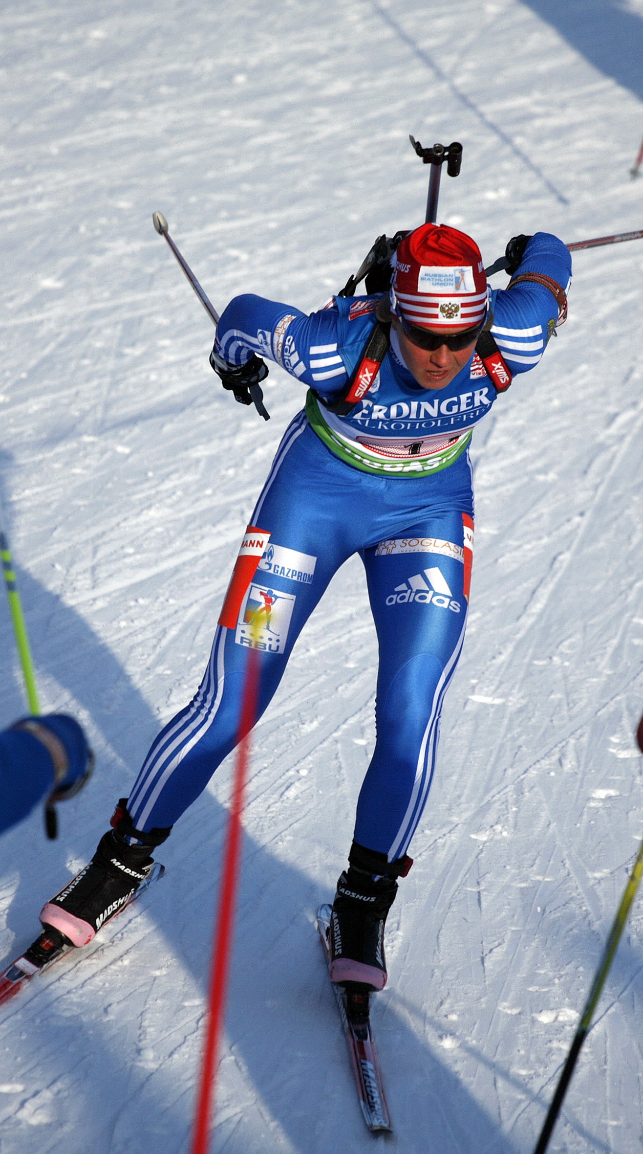 Yana Romanova. Mixed 2 x 6 + 2 x 7.5 km Relay, Kontiolahti 2010. Яна Романова. Смешанная эстафета 2 x 6 + 2 x 7.5, Контиолахти 2010.